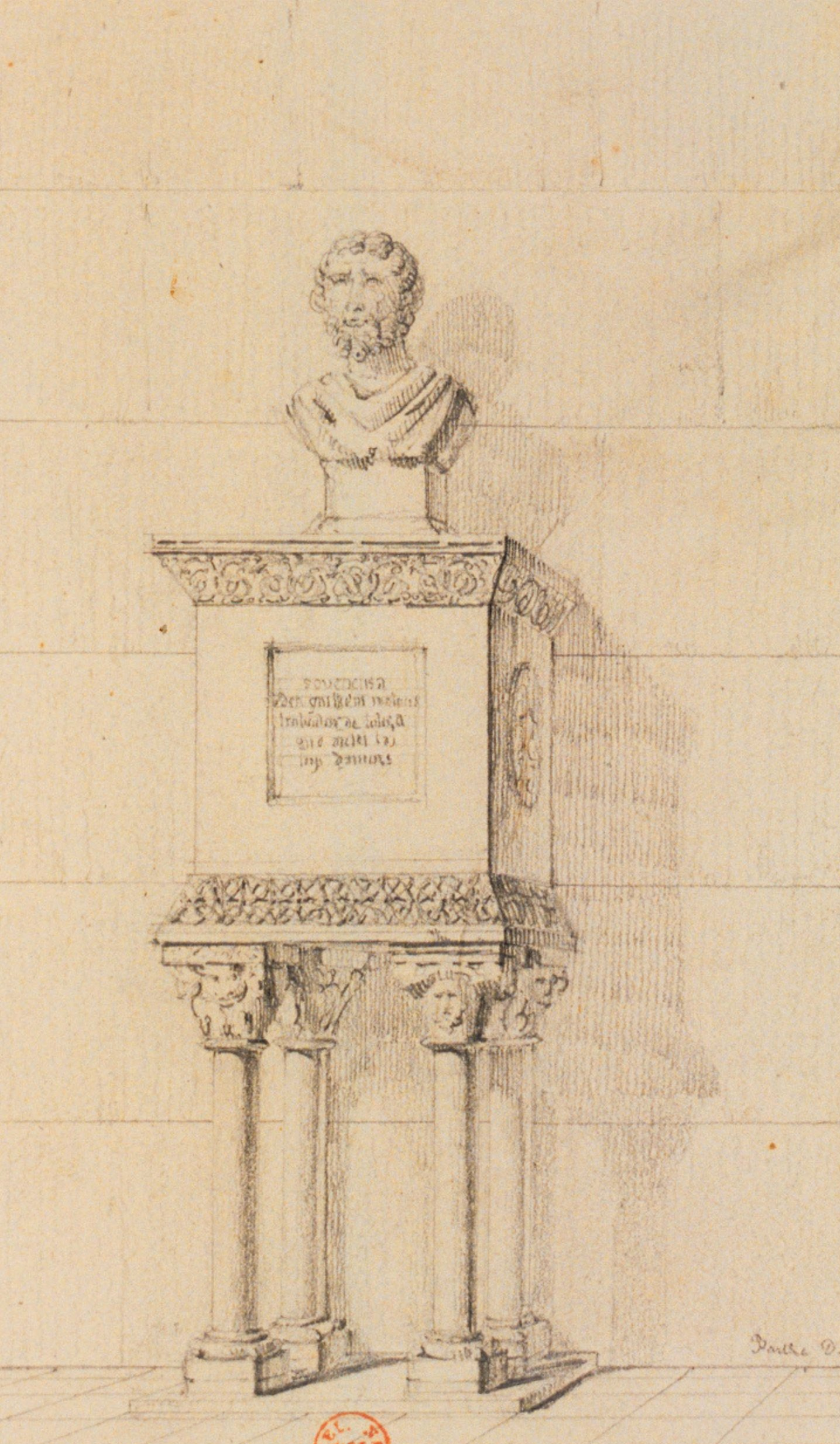 A drawing of Guilhèm Molinièr's tumb in the Musèu de Tolosa